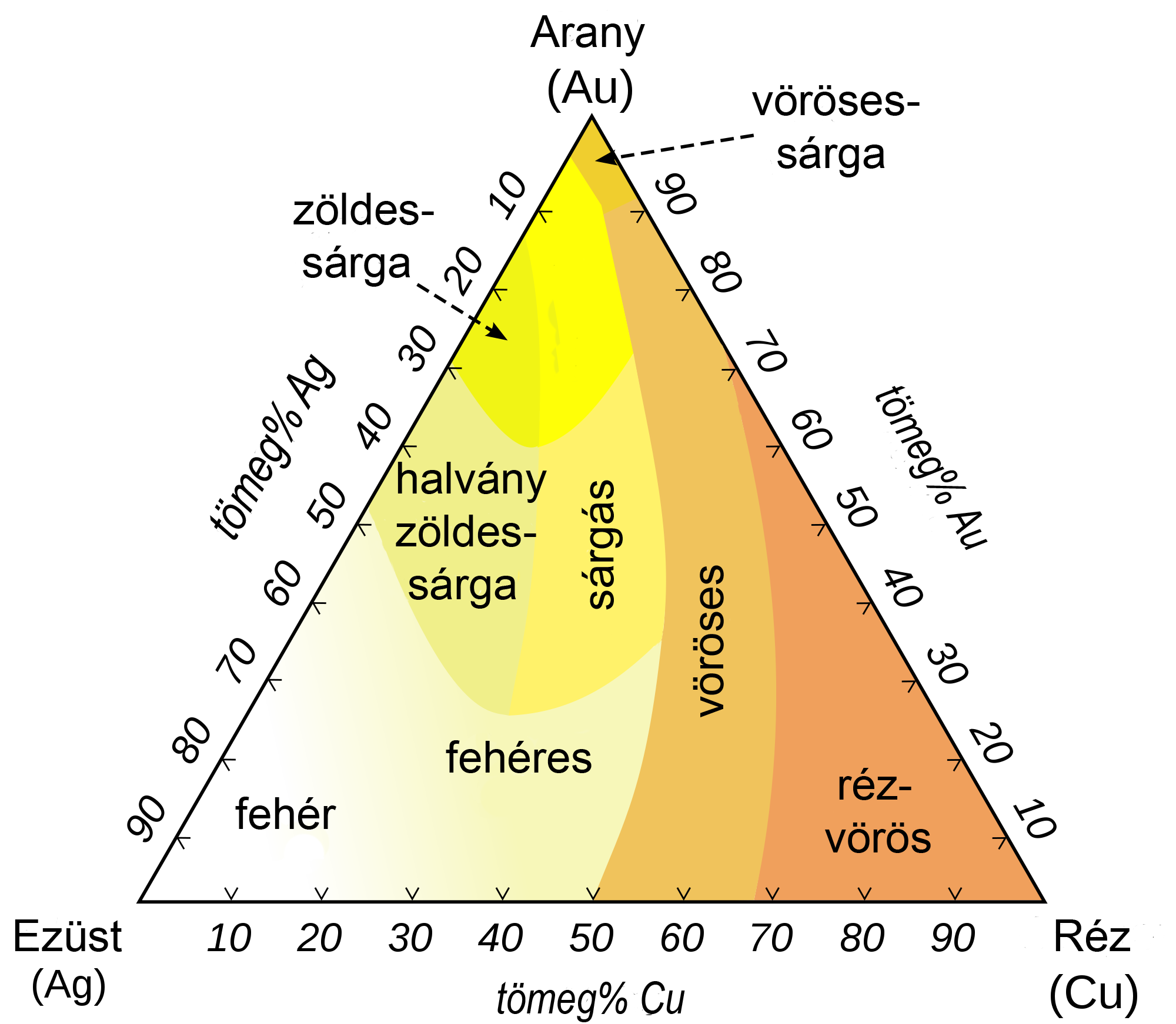 Ternary plot of approximate colours of Ag–Au–Cu alloys, which are commonly used in jewellery making. (Captions in Hungarian)